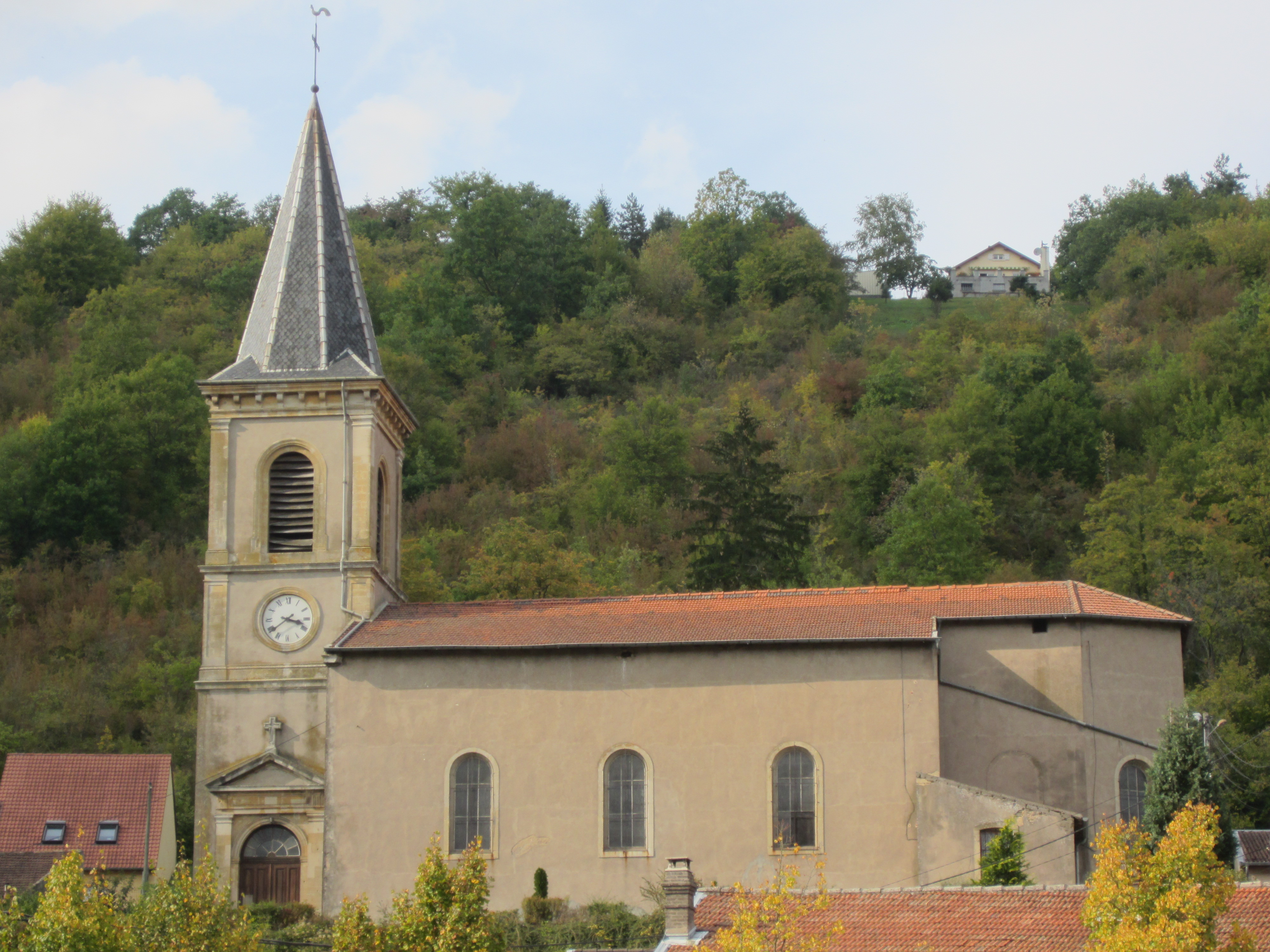 Description eglise Rembercourt Mad Date27 September 2011Sourcemon appareil photoAuthorAimelaimePermission (Reusing this file) eglise Rembercourt Mad